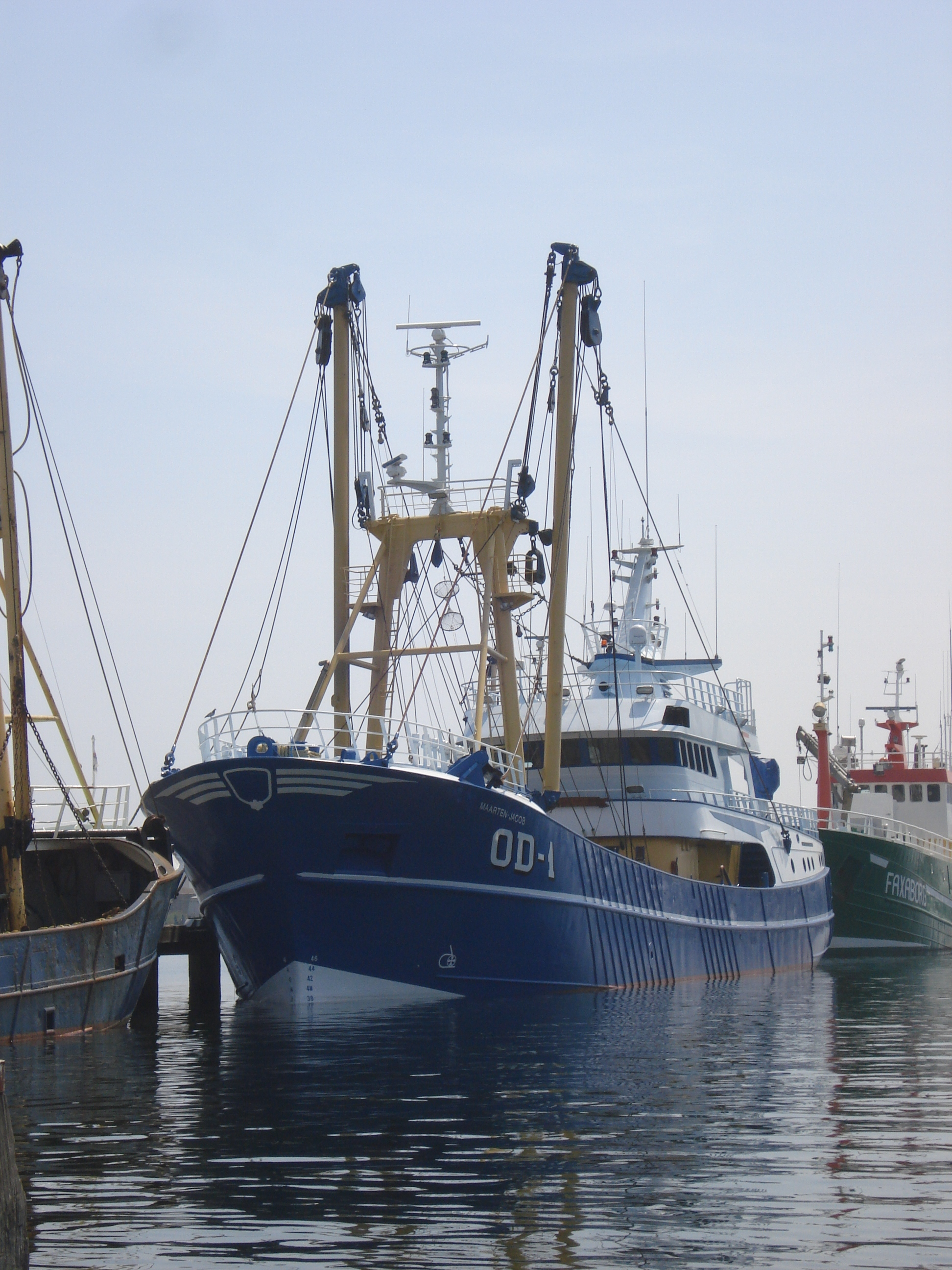 Ouddorp 1 in de haven van Stellendam